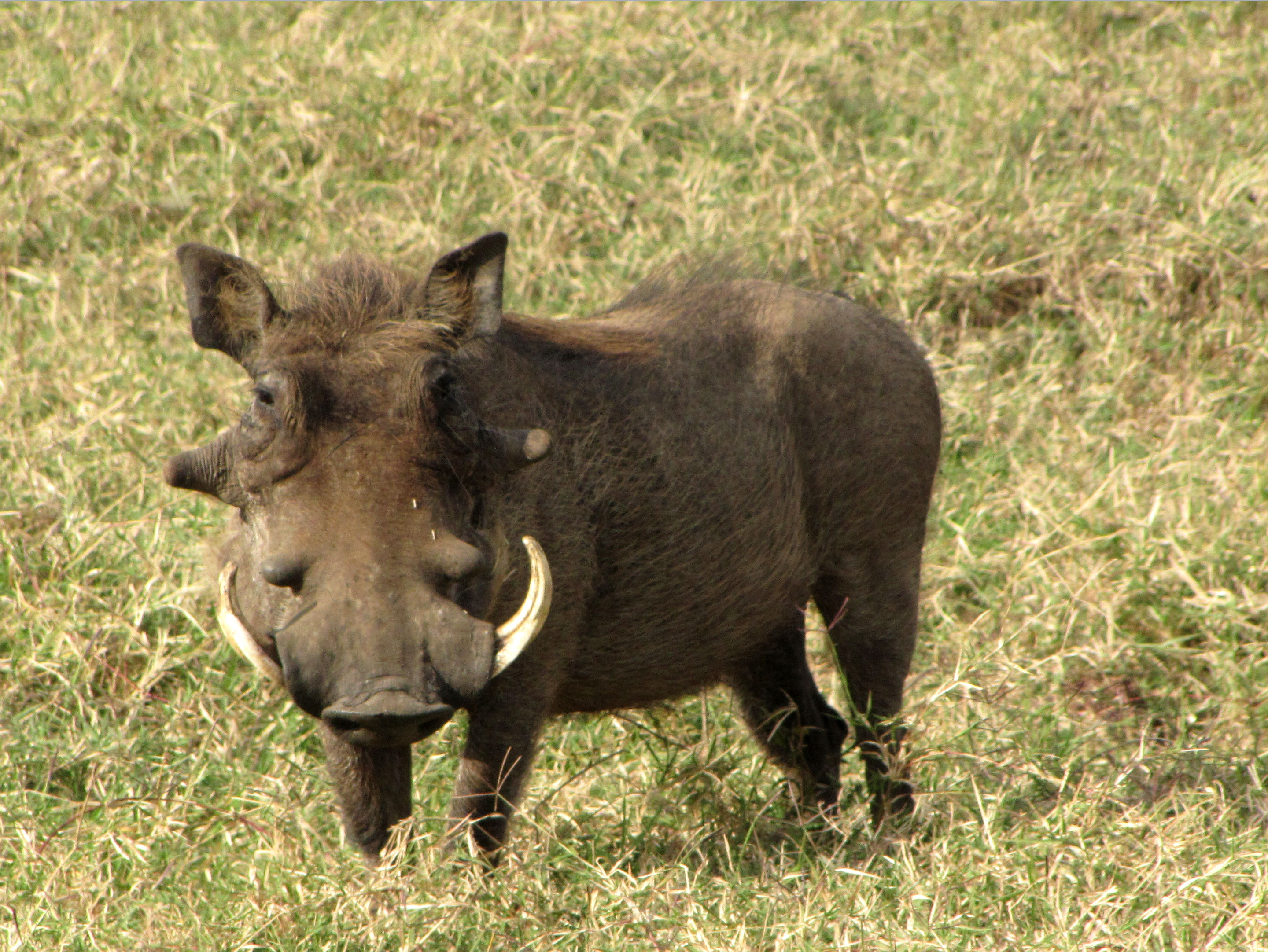 Male warthog (Phacochoerus africanus massaicus) in Serengeti NP, Tanzania